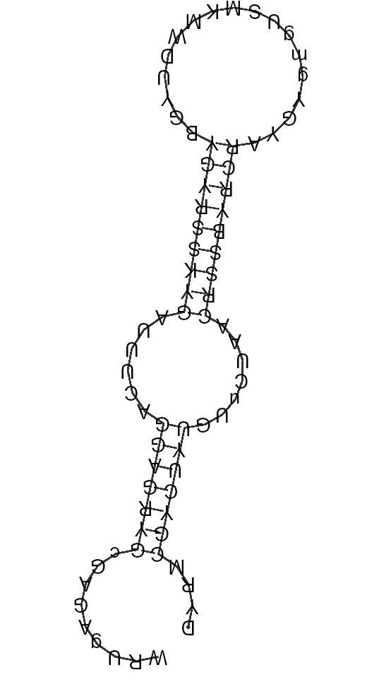 RNA secondary structure of TB10Cs4H2 generated by the WAR server( It is the consensus structure from 8 Trypansomatid species -Leishmania major, Leishmania infantum, Leishmania braziliensis, Trypanosoma brucei, Trypanosoma brucei gambiense, Trypanosoma cruzi, Trypanosoma congolense, Trypansoma vivax